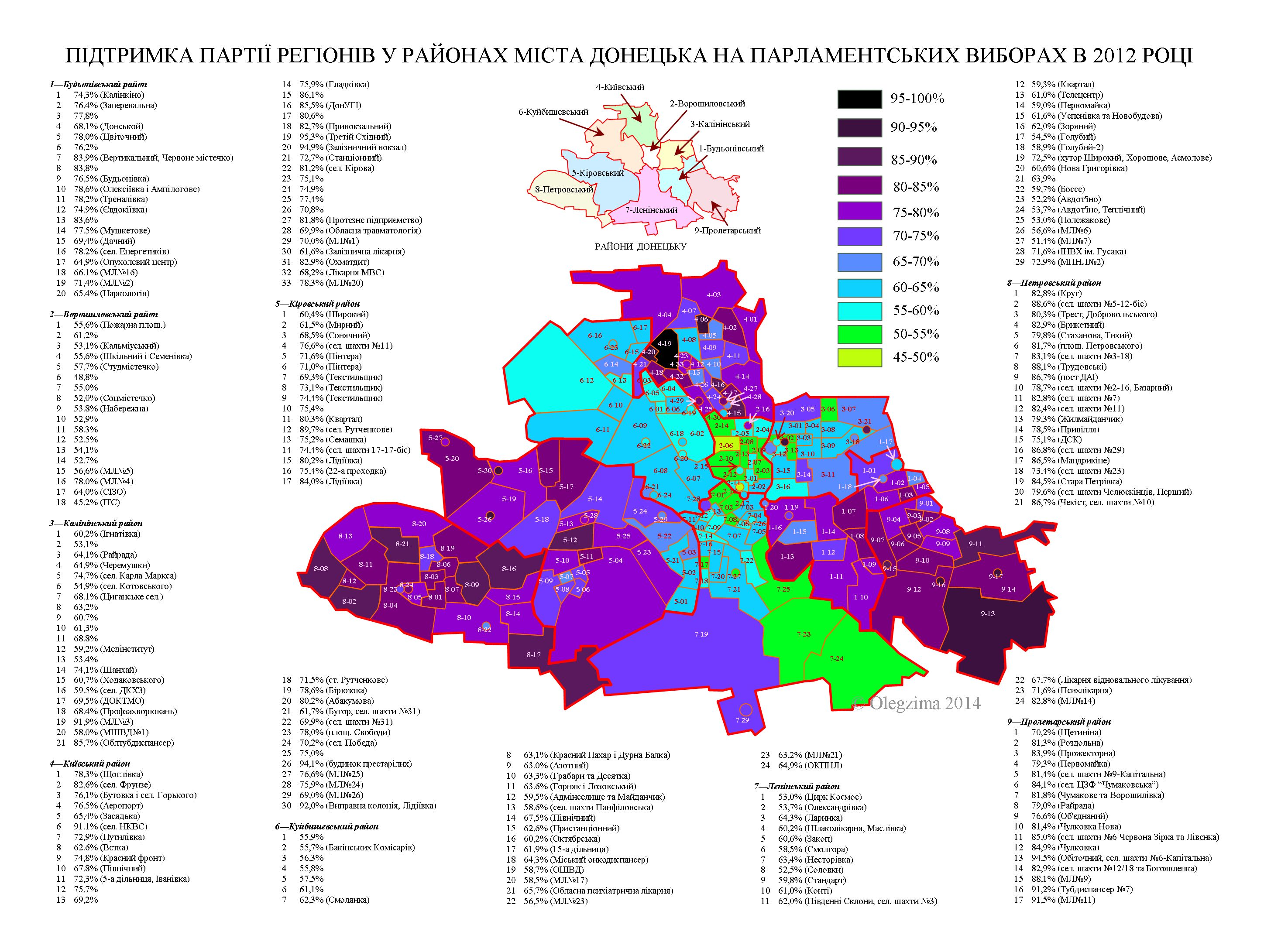 The Party of Regions in areas of the city of Donetsk in the Parliamentary elections in 2012